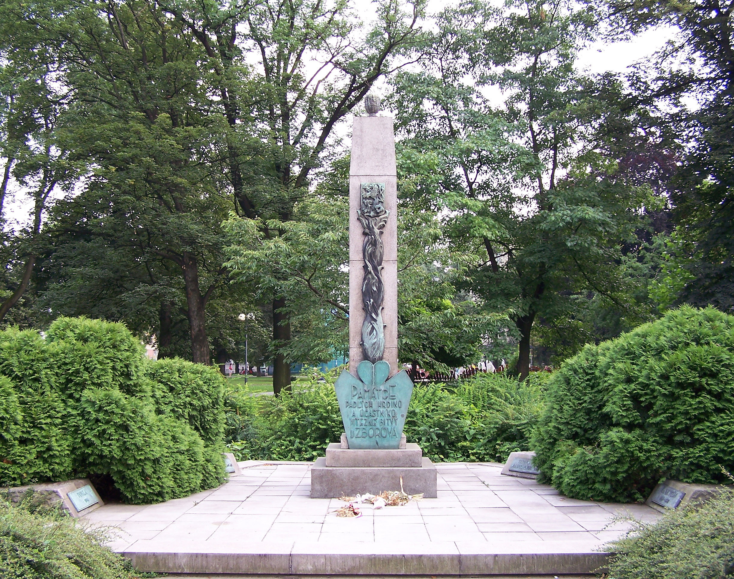 Memorial commemorating soldiers of the battle of Zborov (1917) in Ostrava, Czech Republic